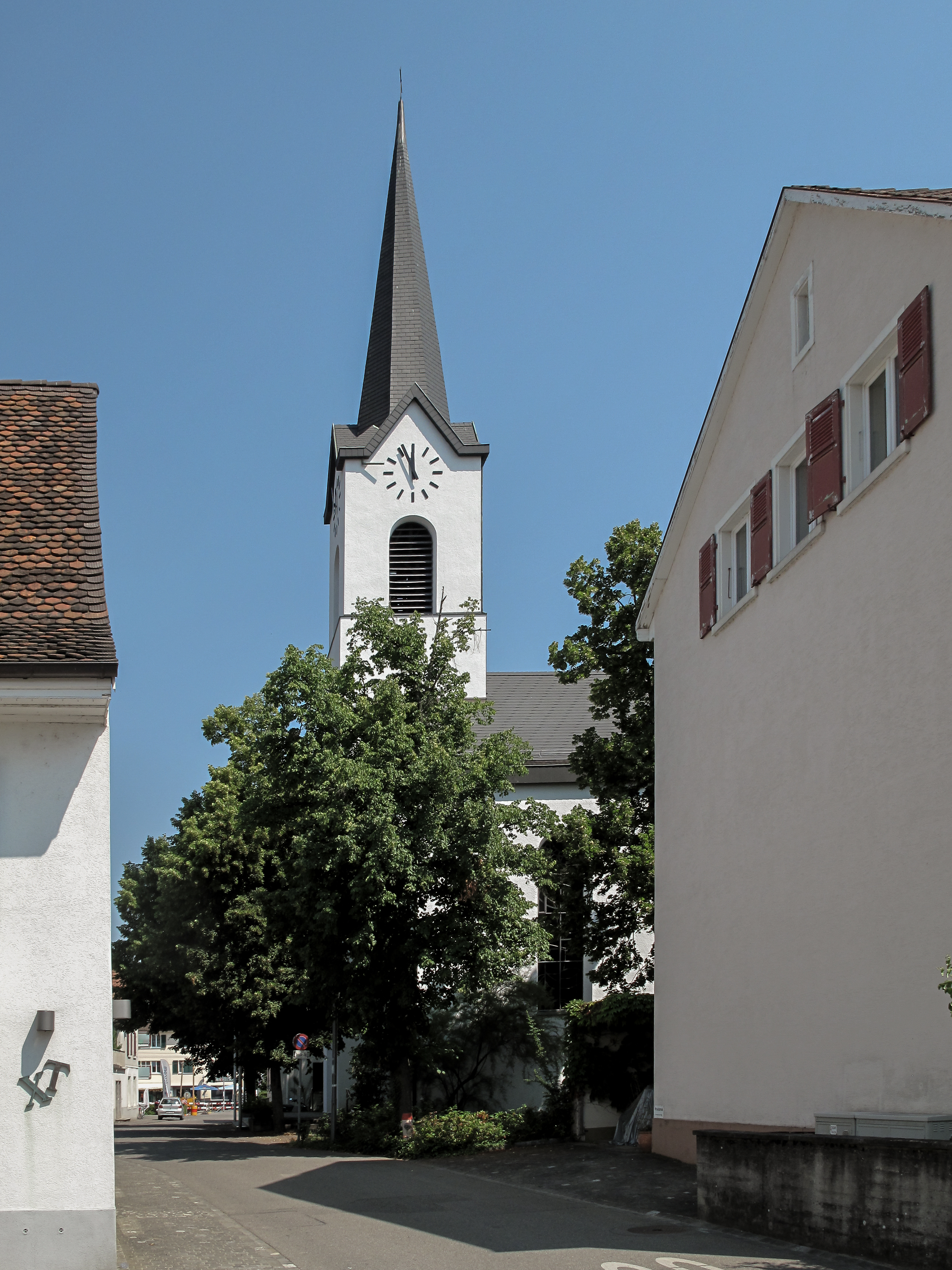 Reinach, church: Sankt Nikolauskirche